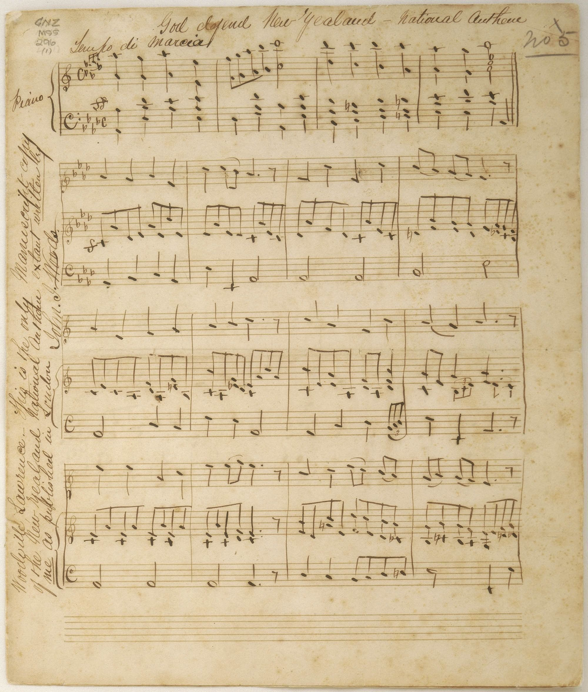 The original manuscript drafted by John Joseph Woods for God Defend New Zealand, currently the national anthem of New Zealand.